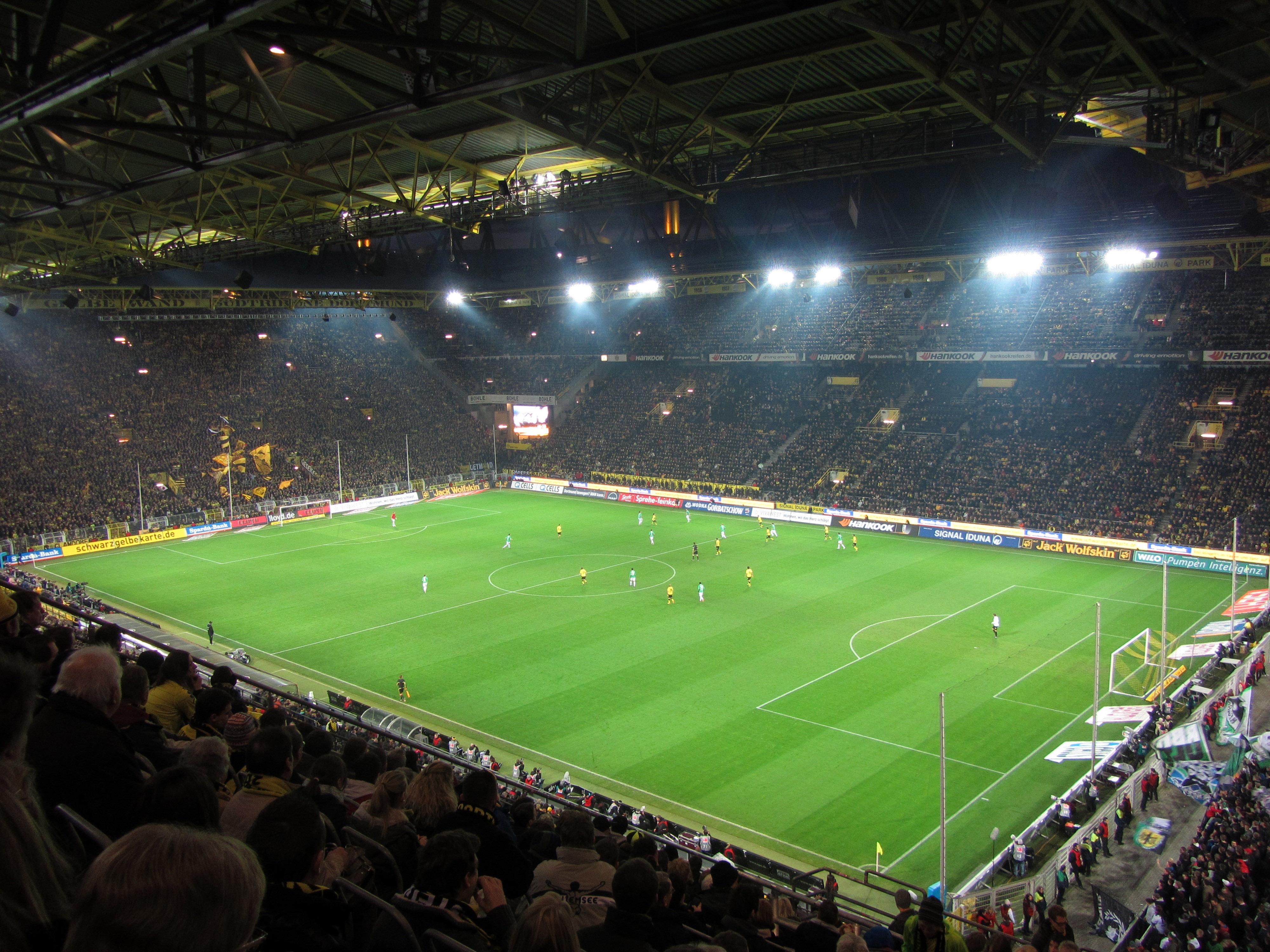 Borussia Dortmund against Hannover 96 in February 2012.